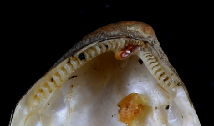 Nuculidae close up taxodont hinge